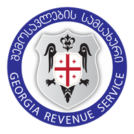 Logo of the Revenue Service of Georgia